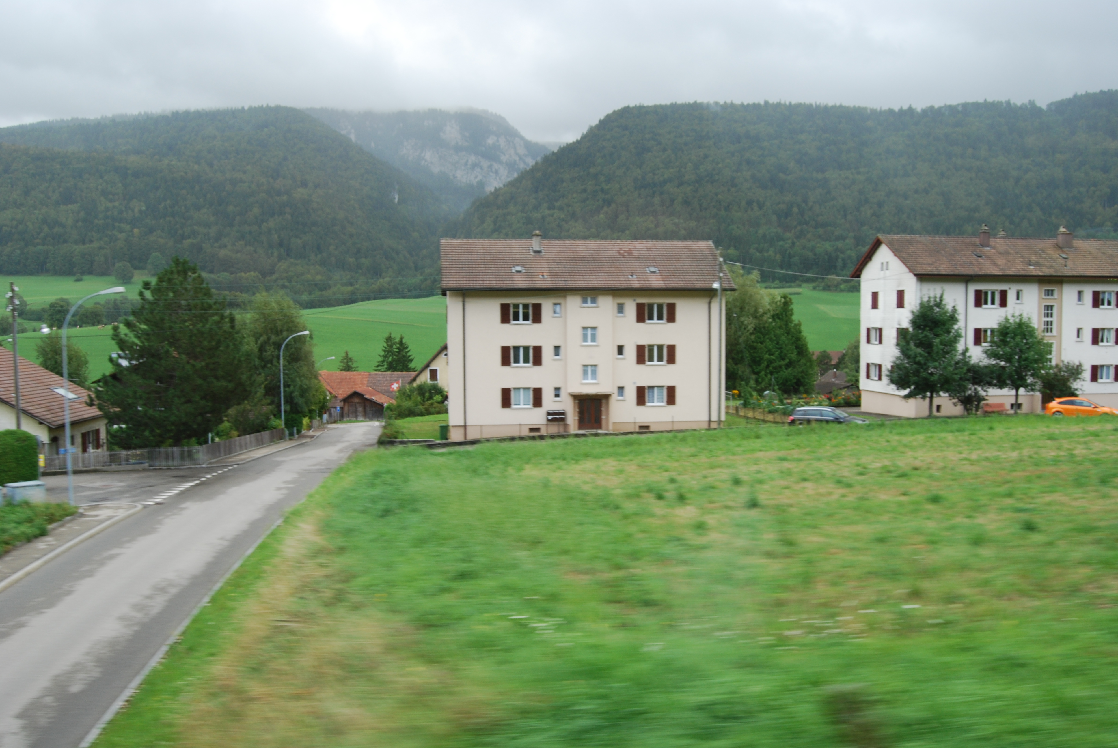 Villeret, canton of Bern, SwitzerlandEsperanto: Villeret, Kantono Berno, Svislando